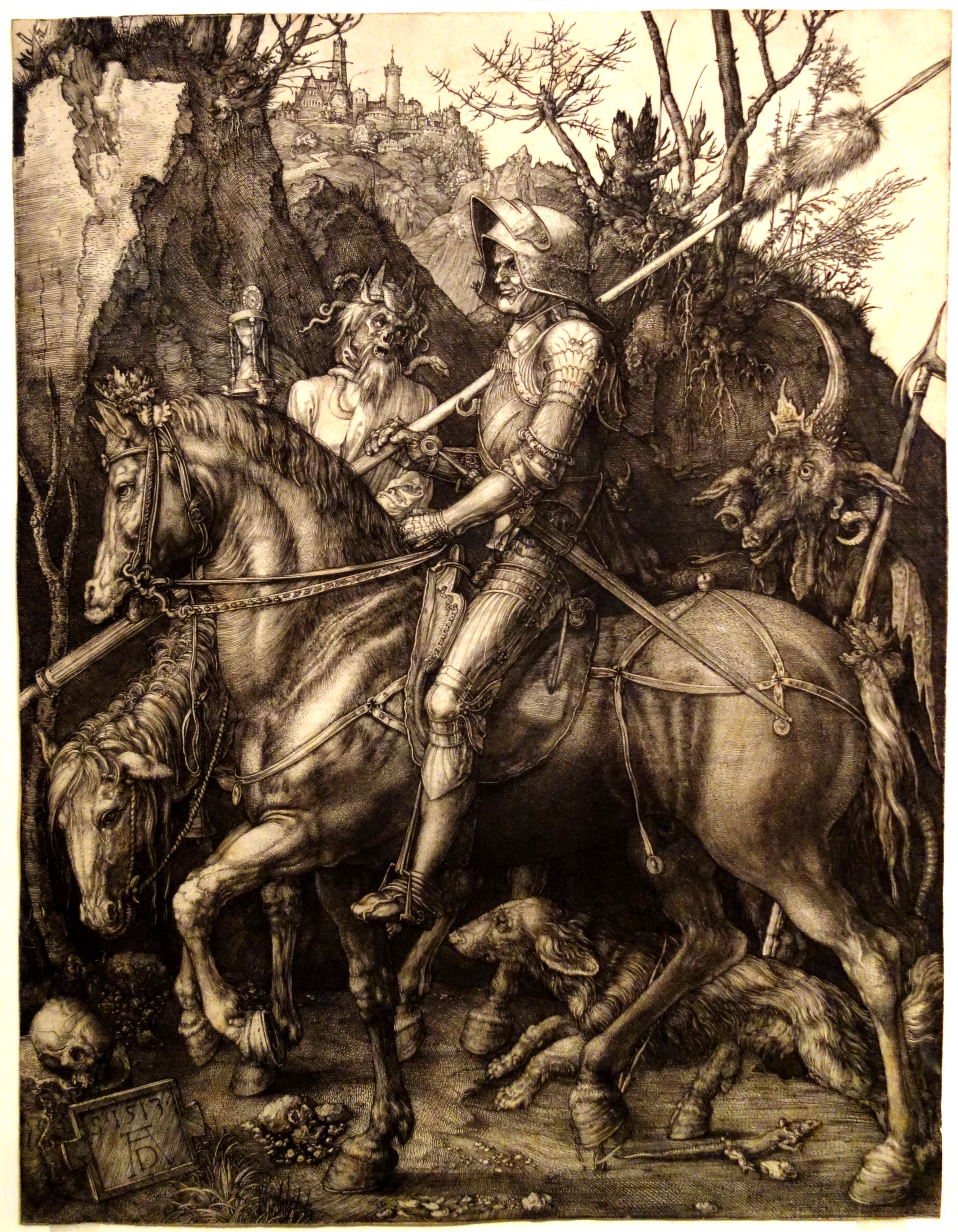 Knigh, Death, and the Devil by Albrecht Durer. Engraving dated 1513. Photograph of print at the Chester Beatty Library in Dublin, Ireland